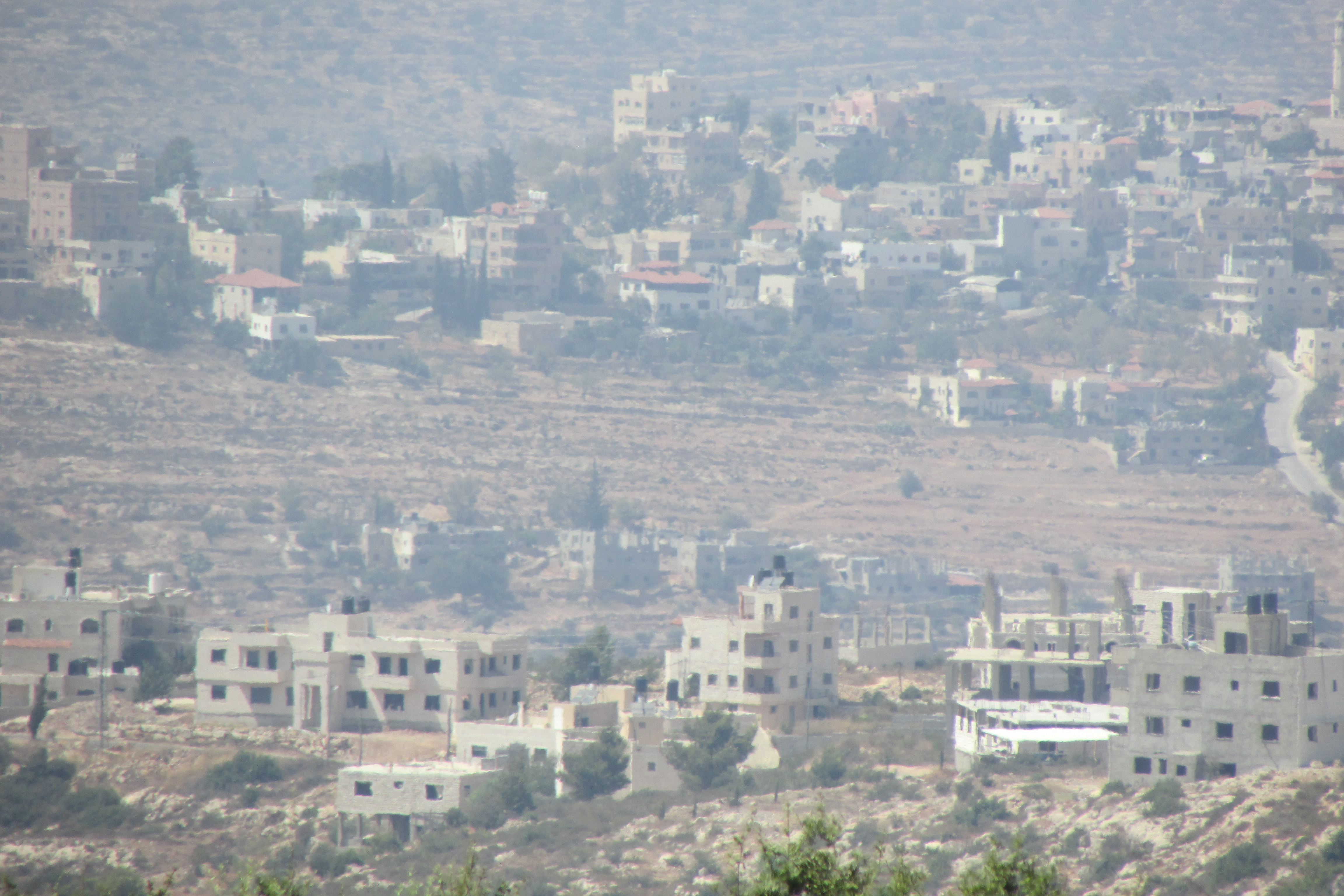 'Arura from Ateret in the south. The closer houses are in Ajjul.